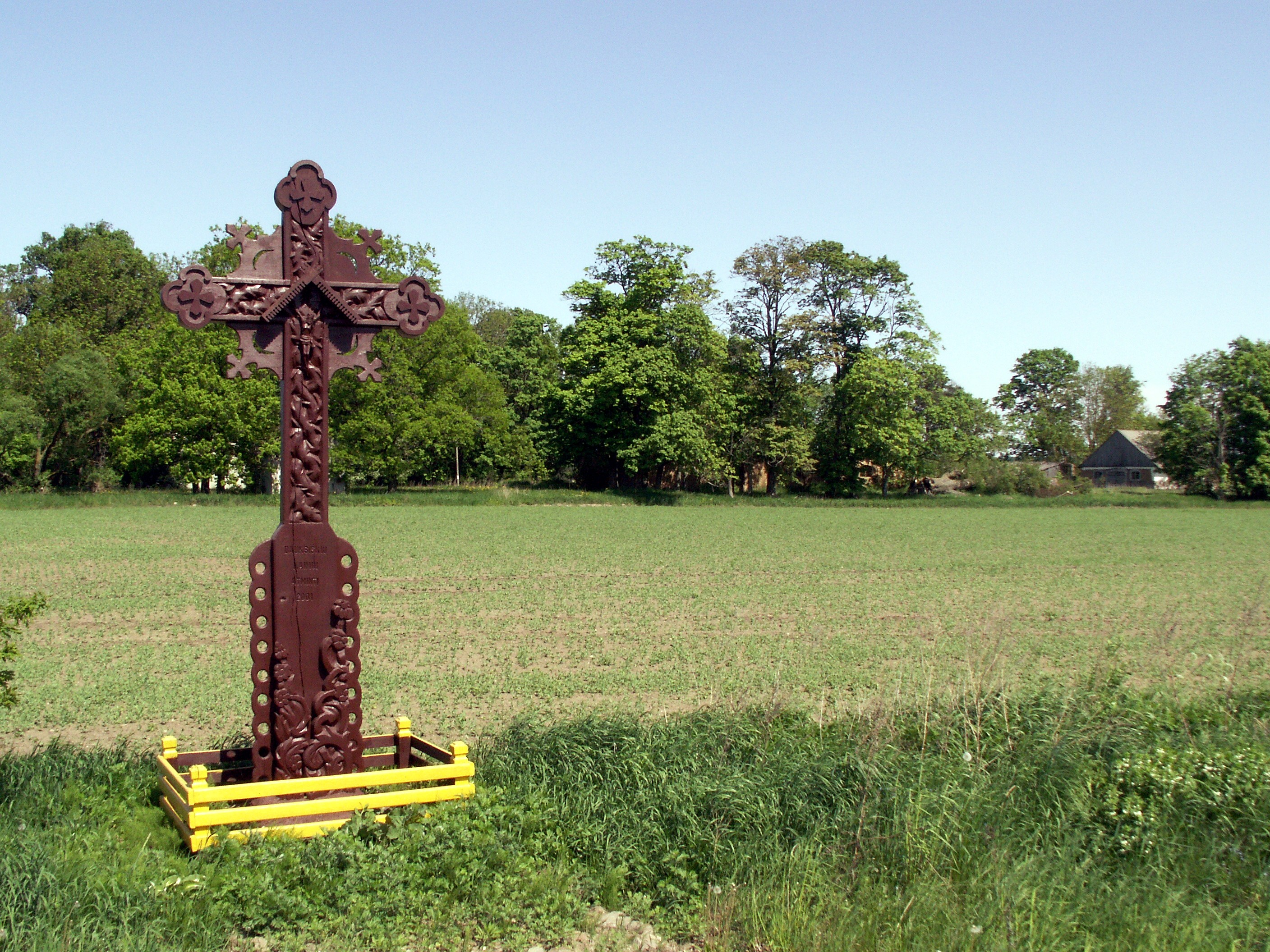 Daukšiškiai, Pakruojis district, Lithuania